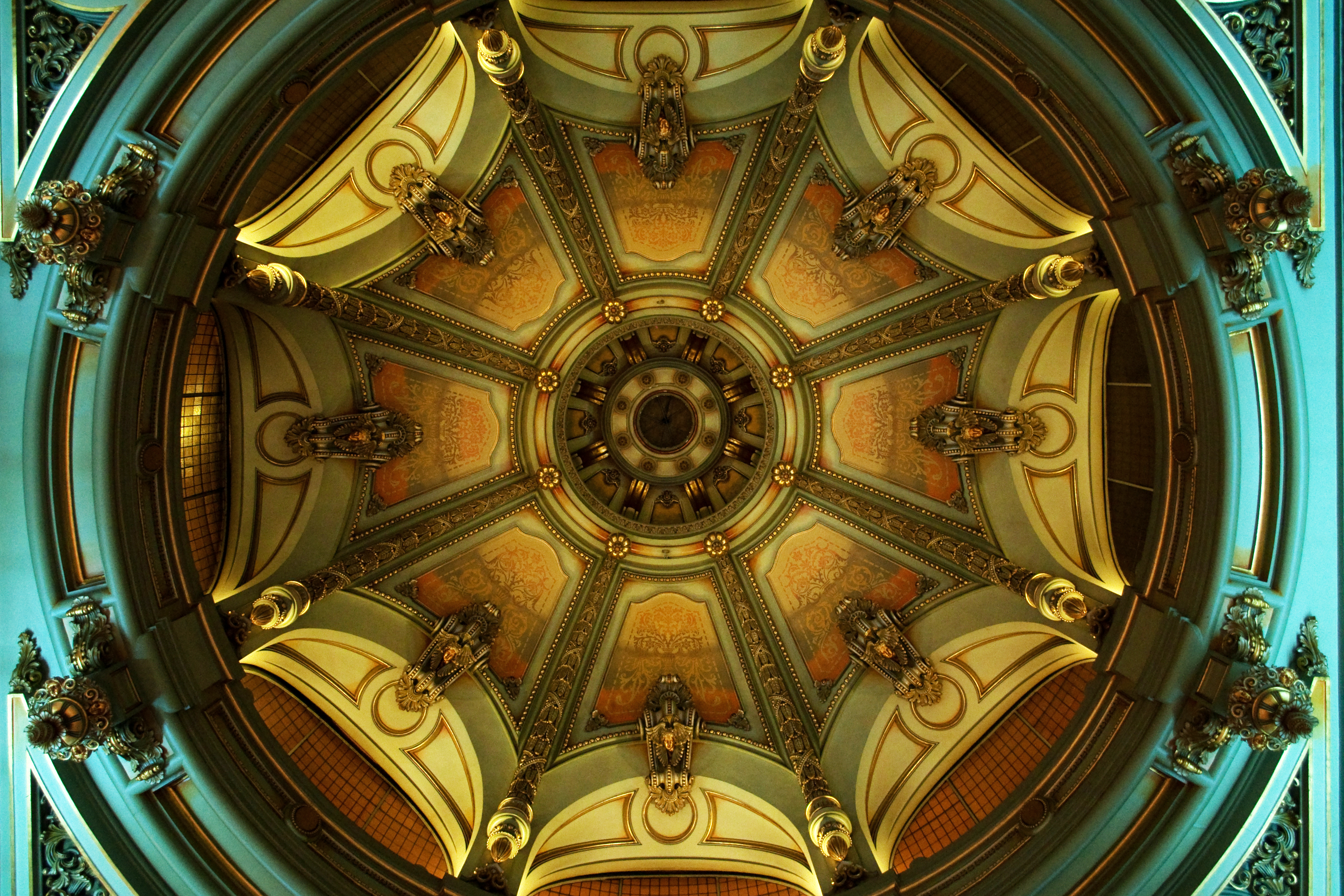 Dome at the Círculo de Bellas Artes in Madrid (Spain).